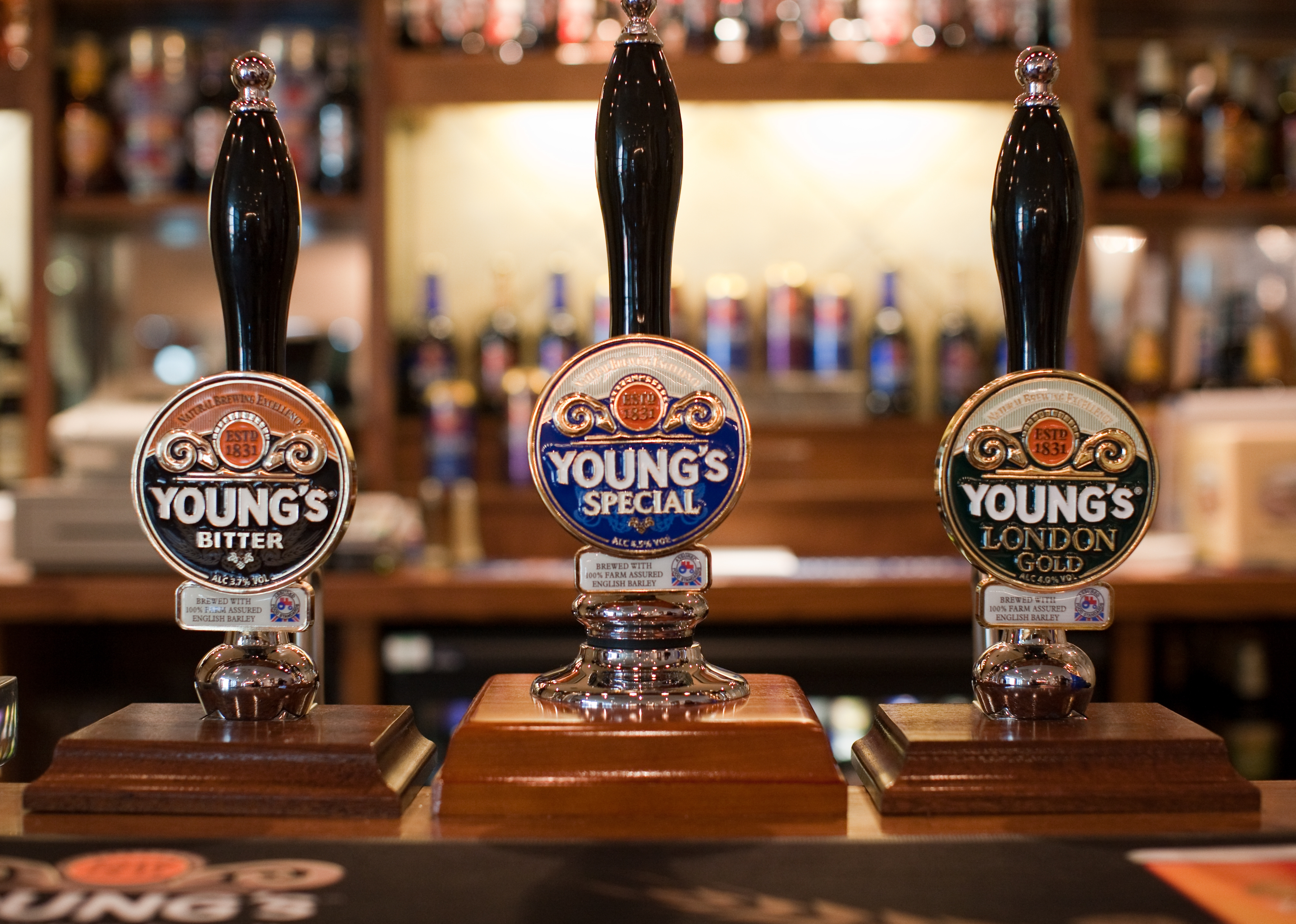 The Young's beer range includes Young's Bitter, Young's Special and Young's London Gold.